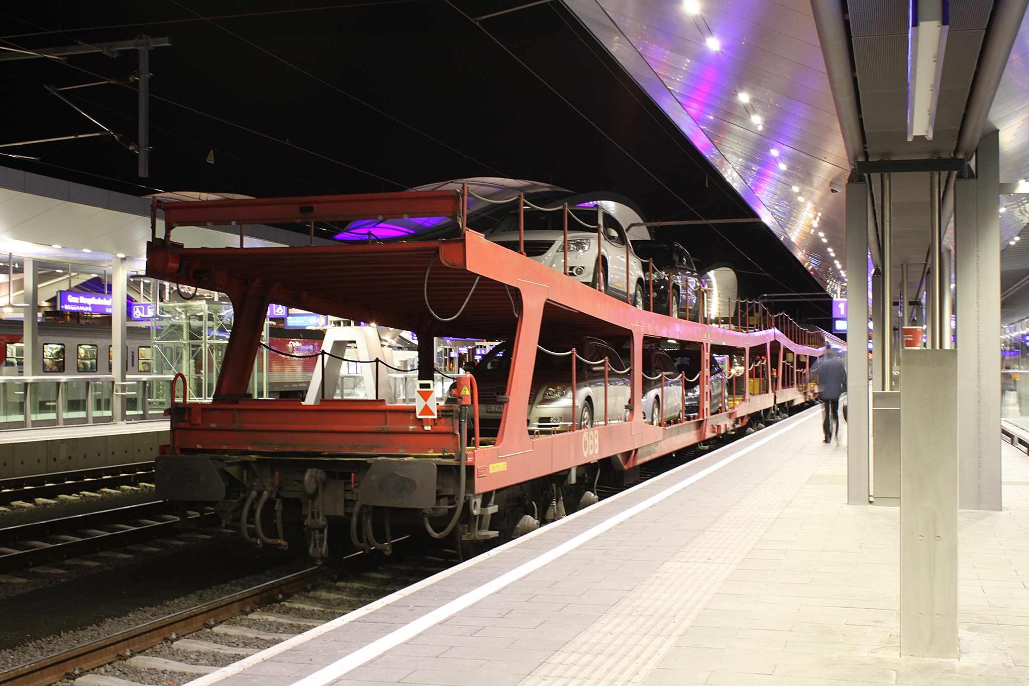 Two ÖBB DDm at Graz Hbf train station at the tail of EuroNight 464 "Zürichsee" to Zürich HB.